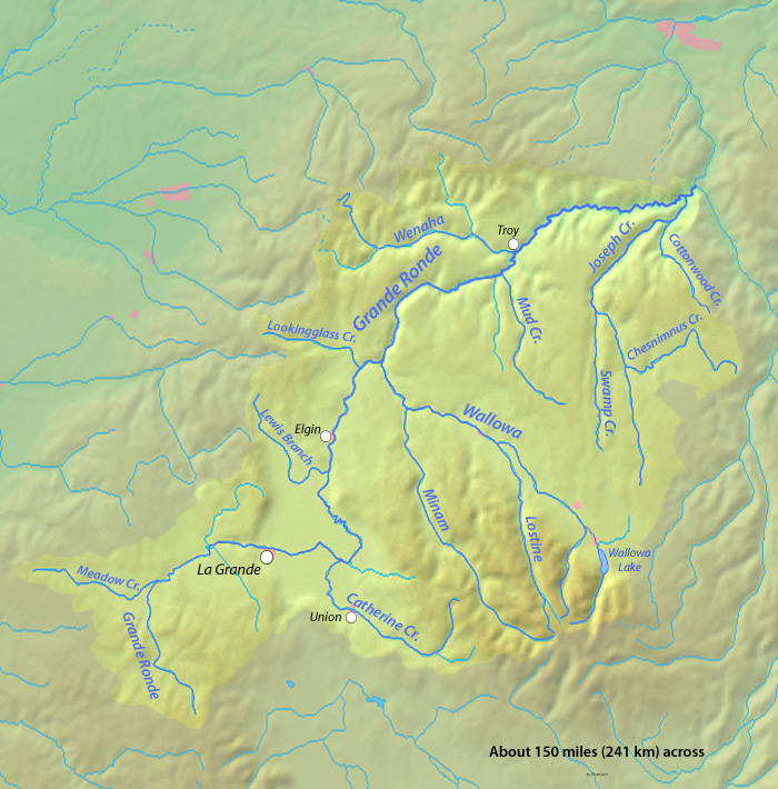 Map of the Grande Ronde River in eastern Oregon, USA